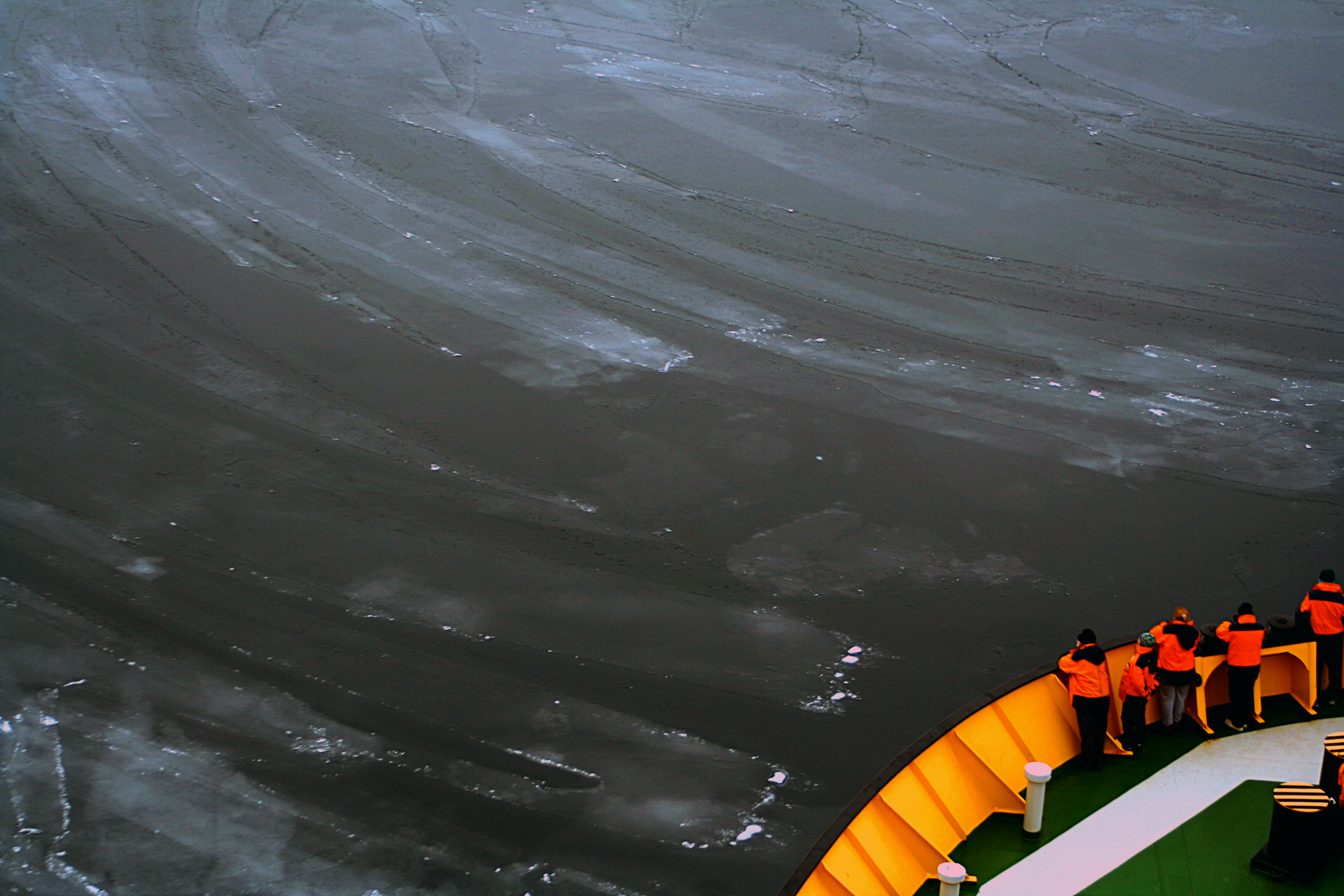 Nilas Sea Ice Buffin Bay Arctic. In calm water, the first sea ice to form on the surface is a skim of separate crystals which initially are in the form of tiny discs, floating flat on the surface and of diameter less than 2-3 mm. Each disc has its c-axis vertical and grows outwards laterally. At a certain point such a disc shape becomes unstable, and the growing isolated crystals take on a hexagonal, stellar form, with long fragile arms stretching out over the surface. These crystals also have their c-axis vertical. The dendritic arms are very fragile, and soon break off, leaving a mixture of discs and arm fragments. With any kind of turbulence in the water, these fragments break up further into random-shaped small crystals which form a suspension of increasing density in the surface water, an ice type called frazil or grease ice. In quiet conditions the frazil crystals soon freeze together to form a continuous thin sheet of young ice; in its early stages, when it is still transparent, it is called nilas. When only a few centimetres thick this is transparent (dark nilas) but as the ice grows thicker the nilas takes on a grey and finally a white appearance.